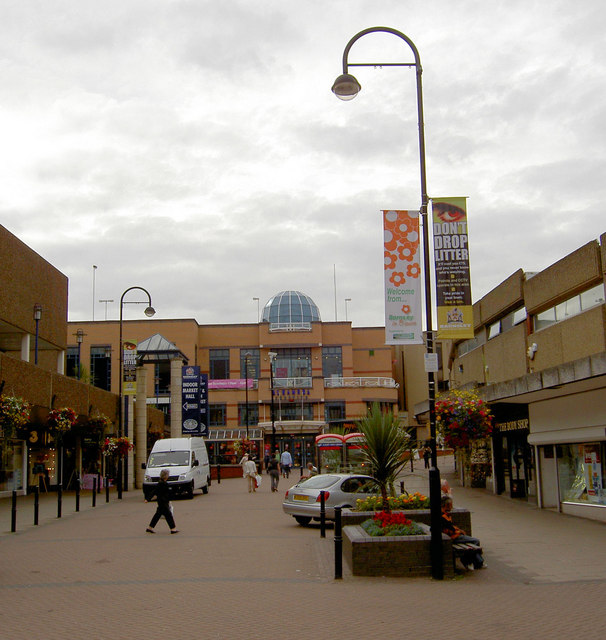 The Mall. Heart of Barnsley shopping.